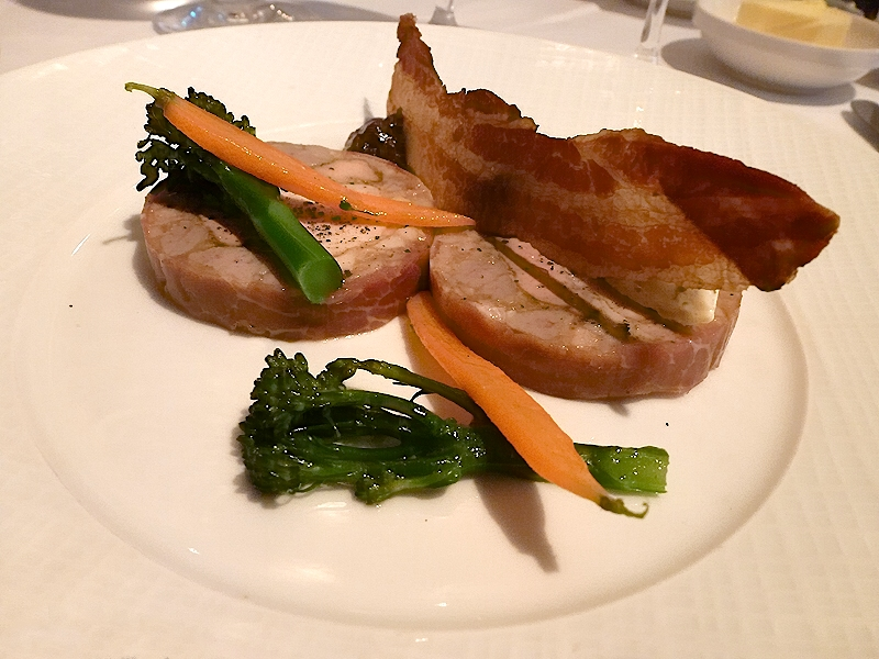 Rabbit ballotine with crisp pancetta, prune purèe and grain mustard.